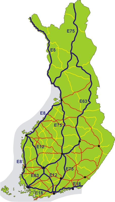 Map of all E-roads in Finland, shown in dark blue. National roads number 1–29 are red, 40–98 are yellow. Black dots show the 12 biggest urban areas.